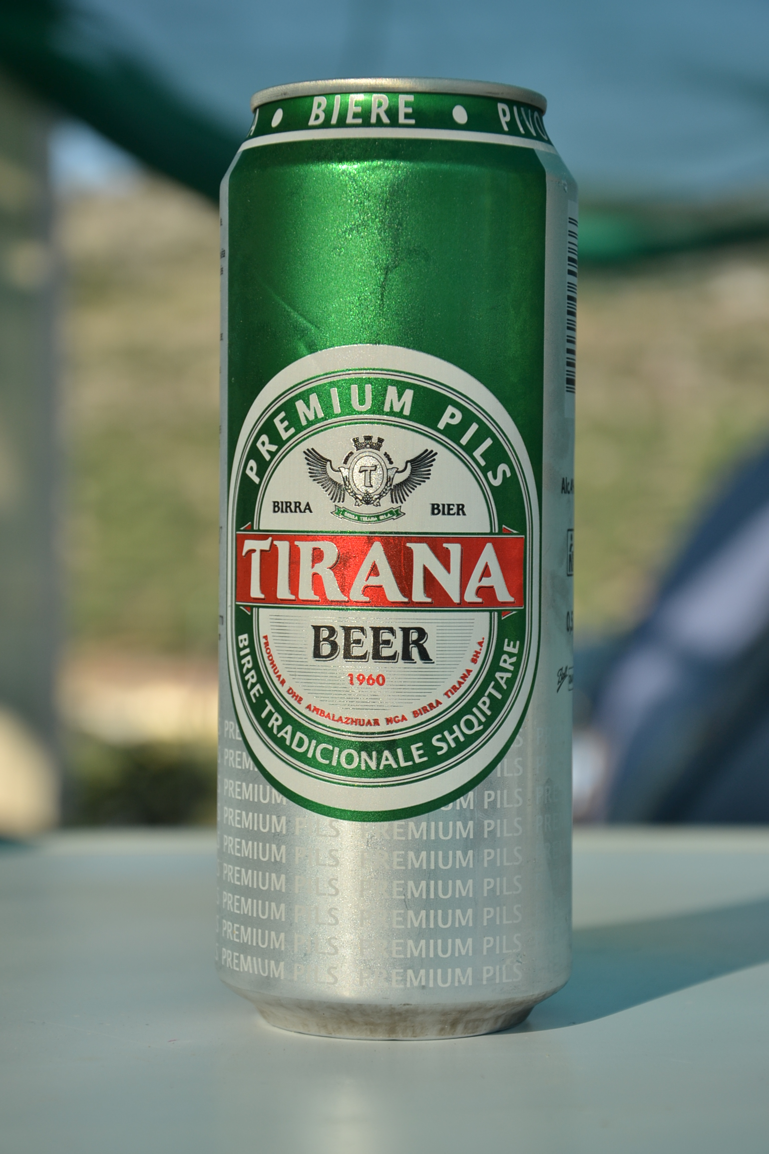 Beer Tirana, Albania